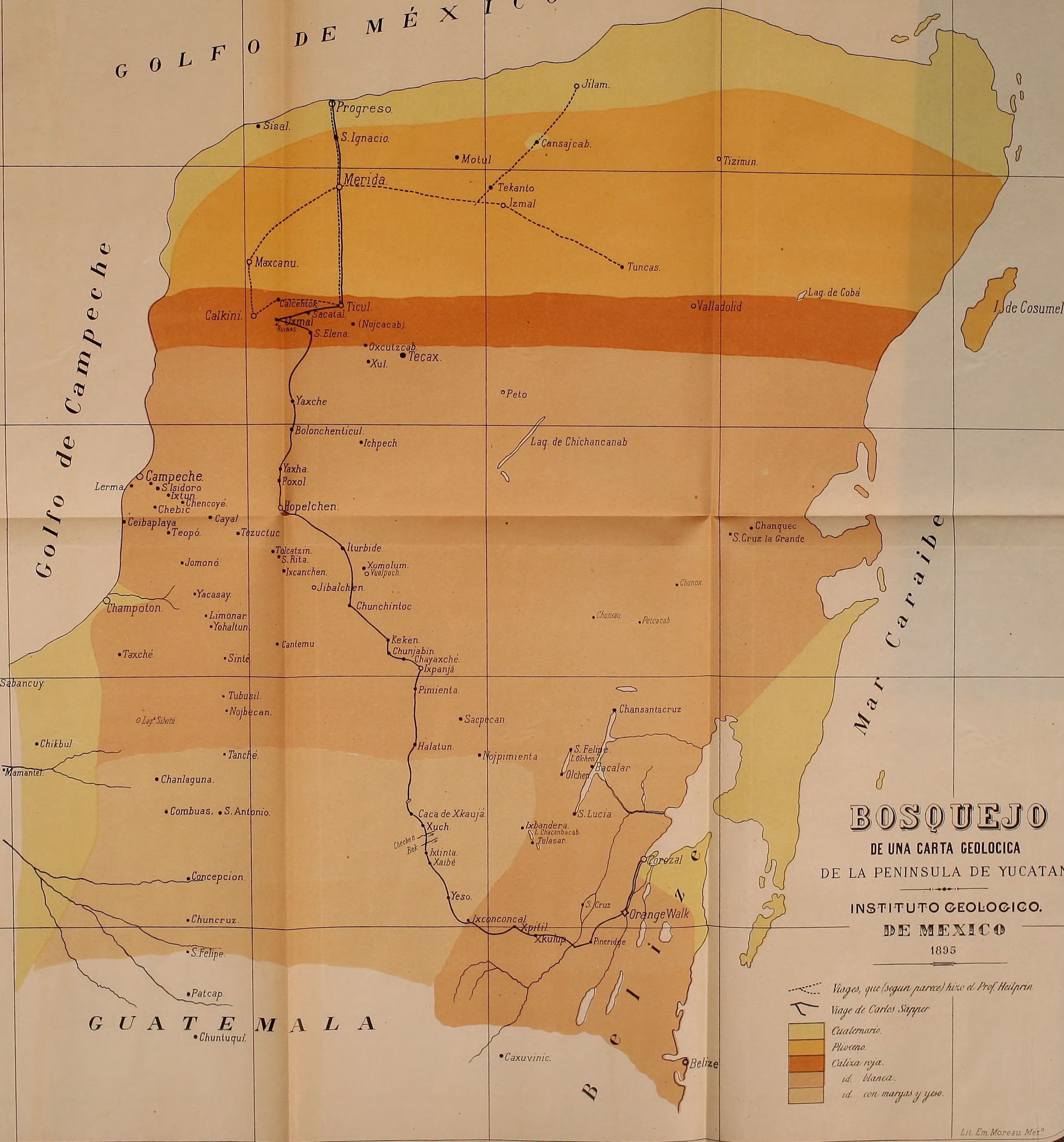 Title: Boletín de la Comisión Geológica de México Year: 1895 (1890s) Authors: Mexico. Ministerio de Fomento; Mexico. Comisión Geológica Subjects: Geology; Geology Publisher: México, D. F. : (Comisión Geológica) Text Appearing Before Image: /r c o Text Appearing After Image: DE UNA CARTA GEOLÓGICA DE LA península DE YUCATÁN INSTITUTO OEOLO&IGO. — ®E MExac© I89S \. Ca/íxa /tya. Lit £'m Mores 11 Mei"